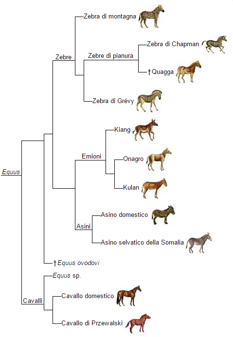 Phylogeny of equids